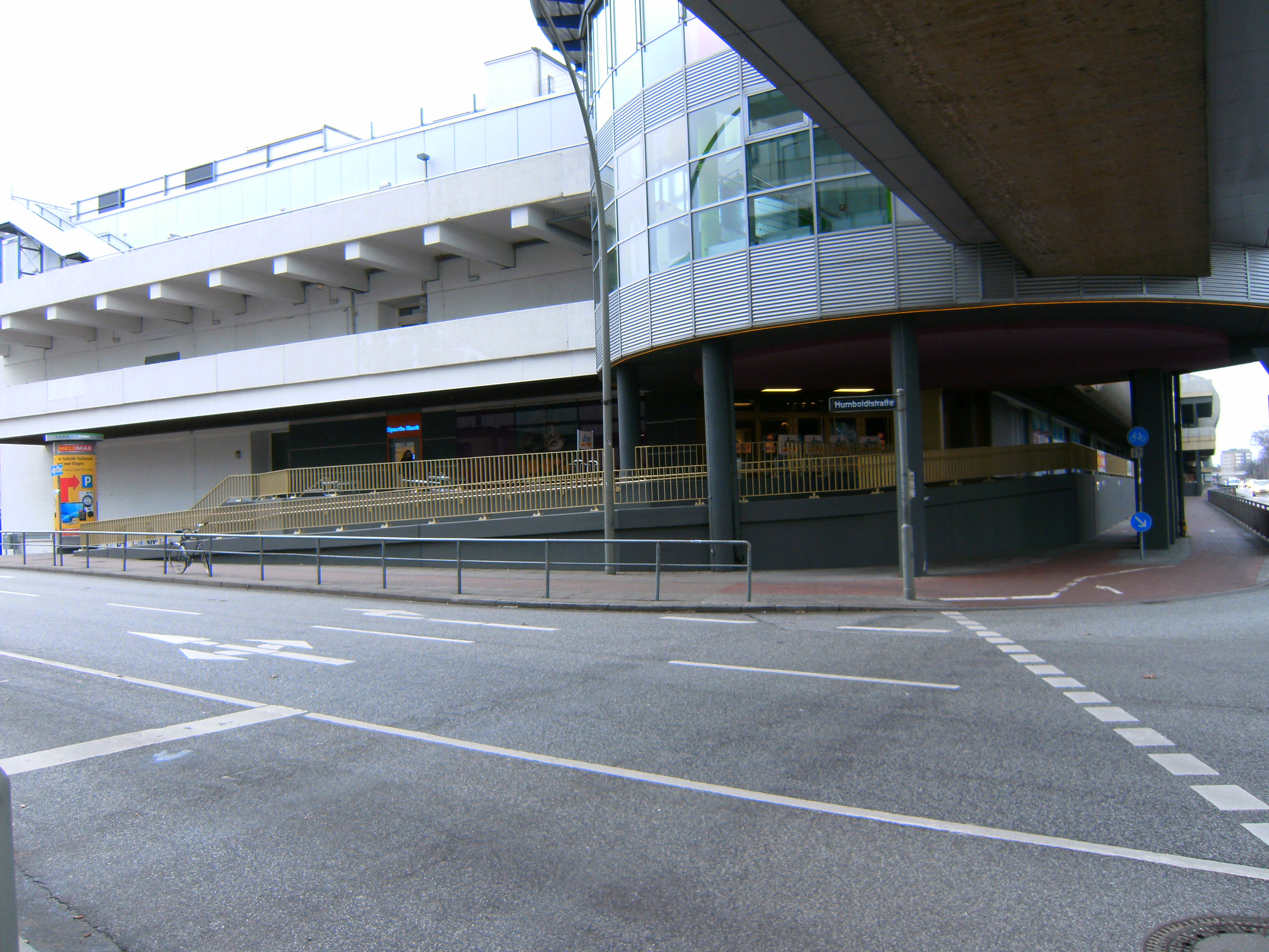 Here begins the Humboldtstraße in Hamburg. There is the entrance for pedestrians to shopping mall Hamburger Meile.